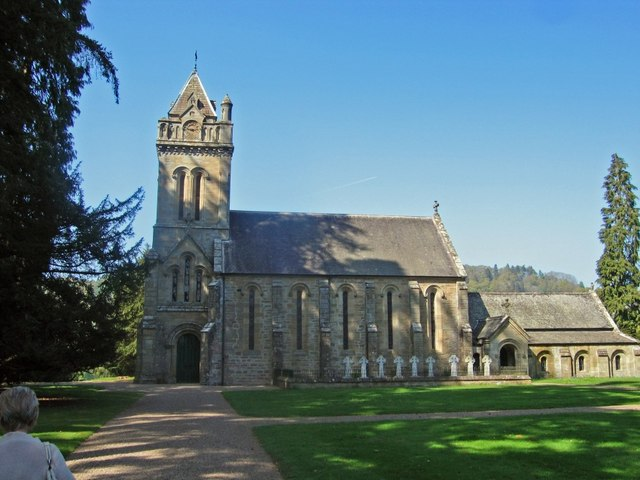 Murthly Castle Chapel The castle's Chapel of St Anthony the Eremite was built in the 17th & 19th centuries. The approach is bounded by a double row of yew trees that are over 500 years old